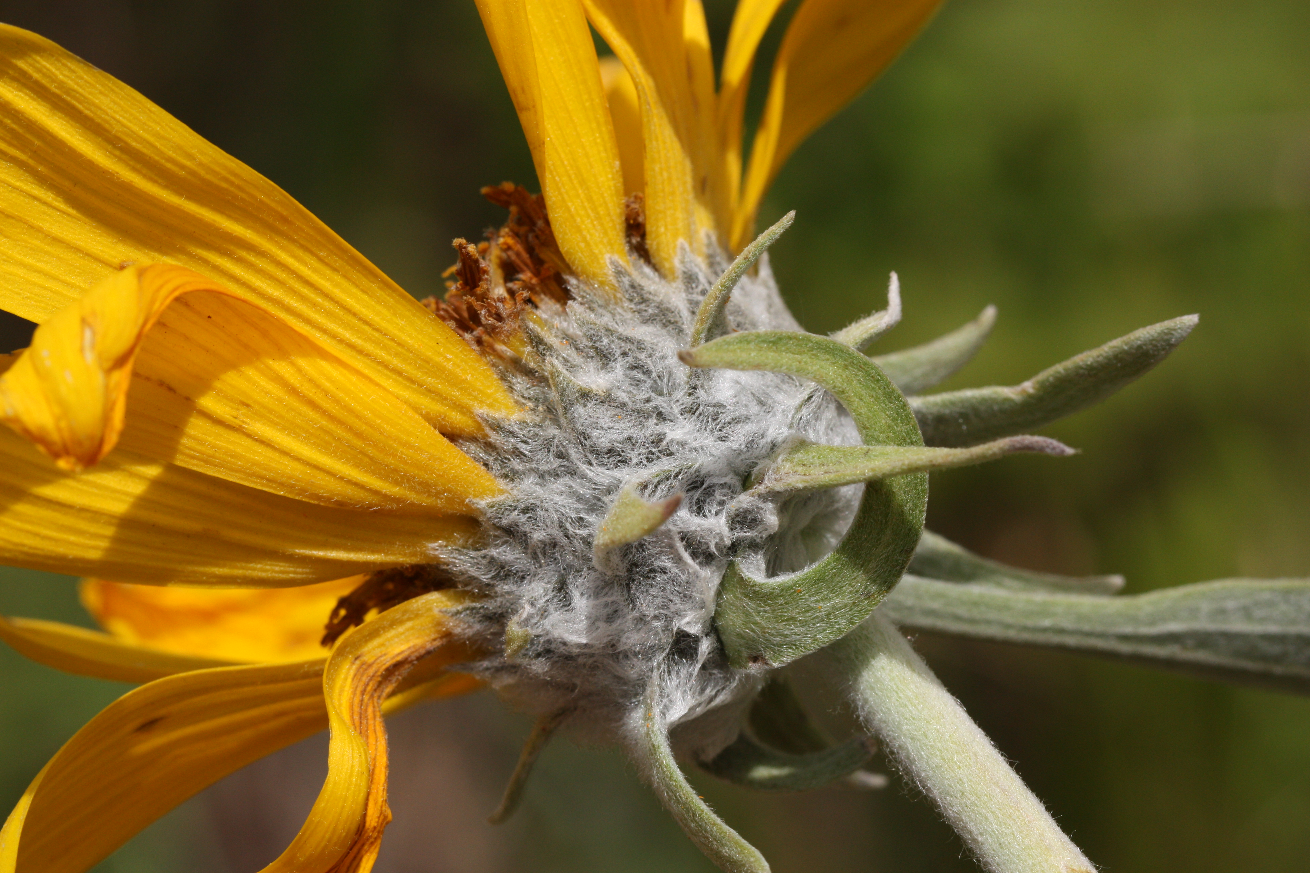 Arrowleaf Balsamroot Viewpoint location: Tronsen Ridge Trail #1204, Tronsen Ridge Viewpoint elevation: 1305 meter (4282 ft) Location source: Garmin GPSmap 60CSx Location Datum: WGS84